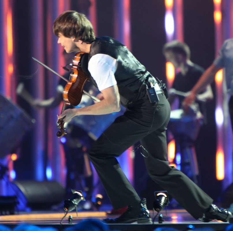 Alexander Rybak at The Nobel Peace Price Concert 2009